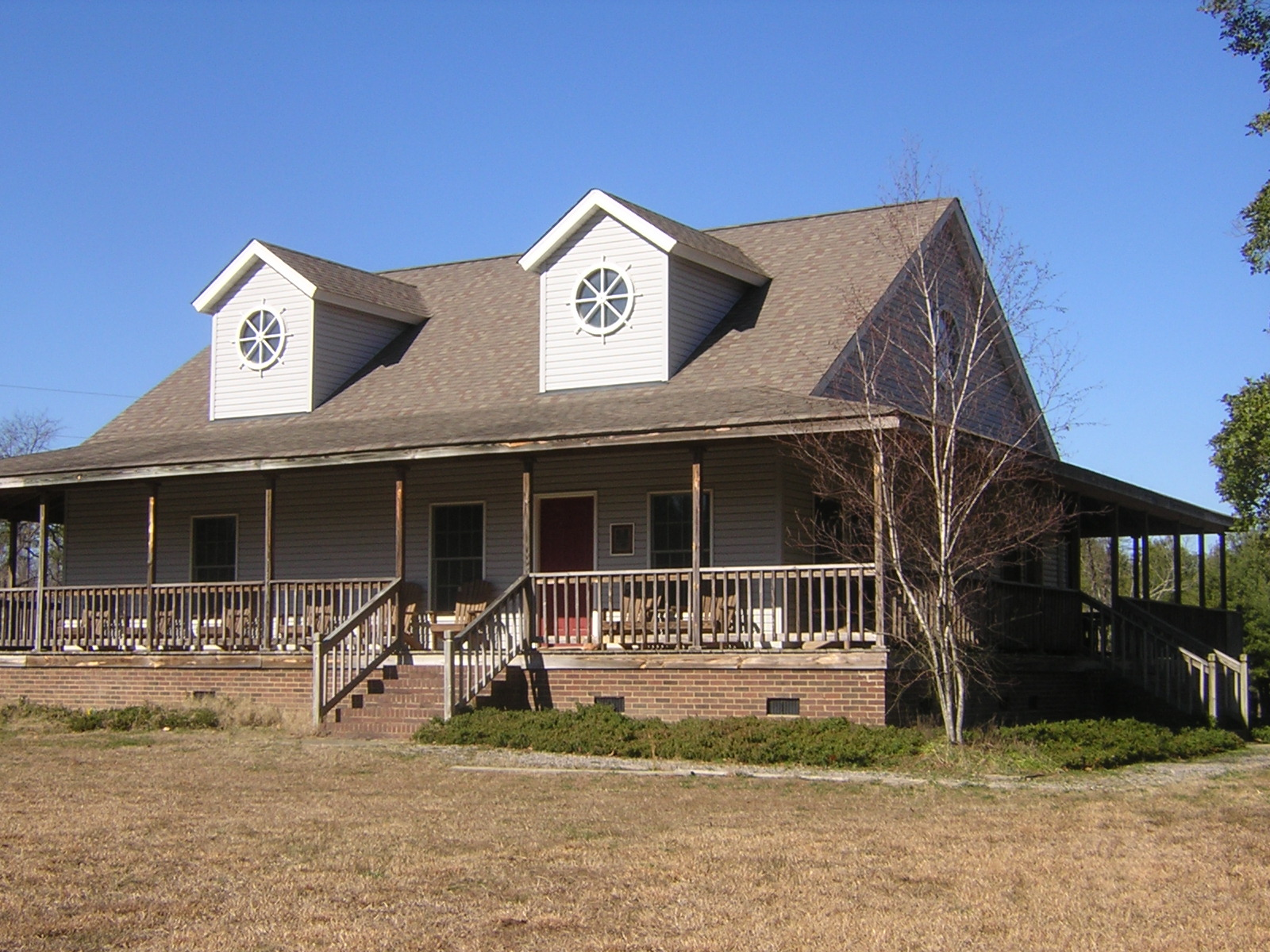 Gregson Center and museum at Pipsico Scout Reservation, the camp of Tidewater Council, Boy Scouts of America.